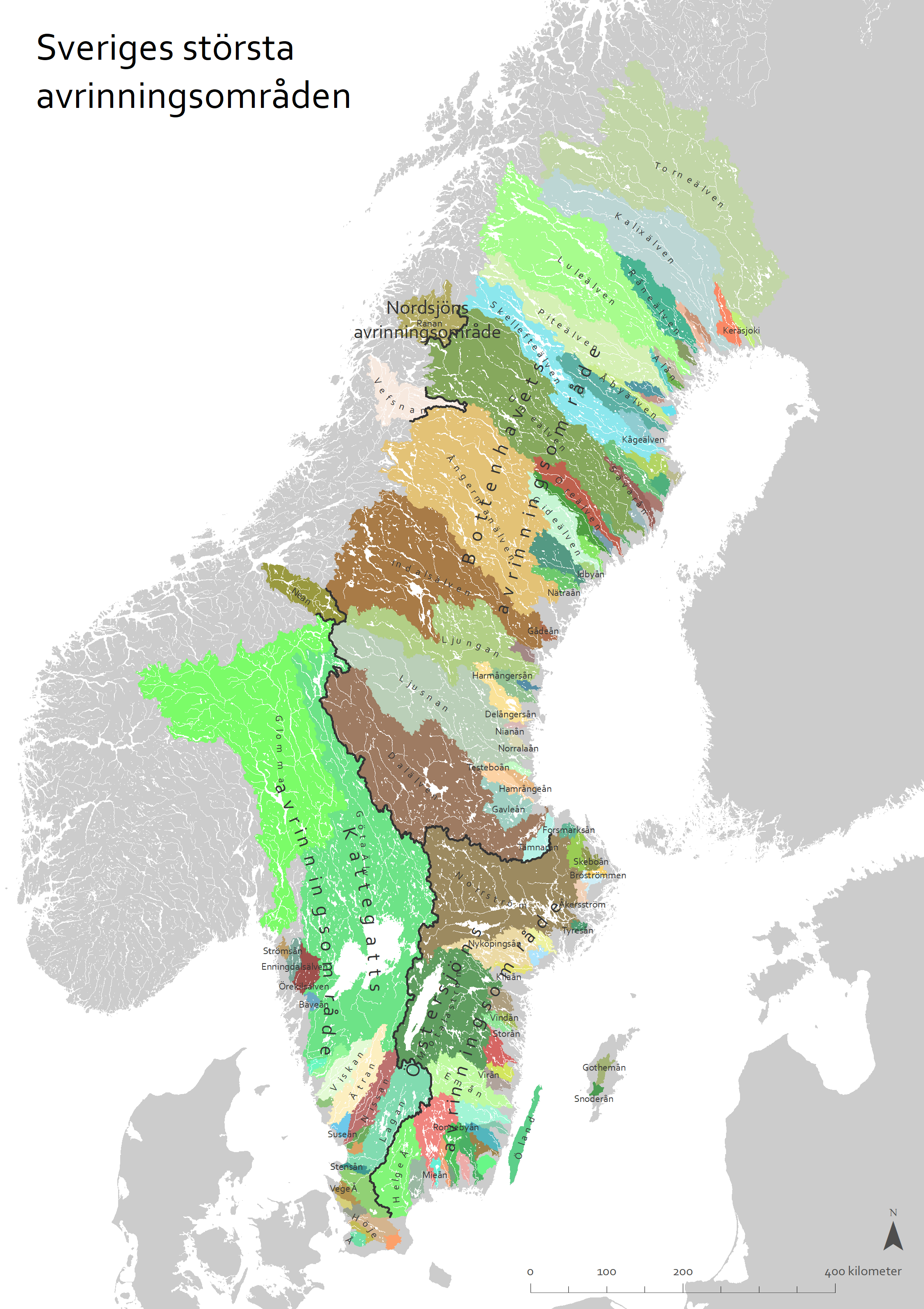 Main drainage basins in Sweden.